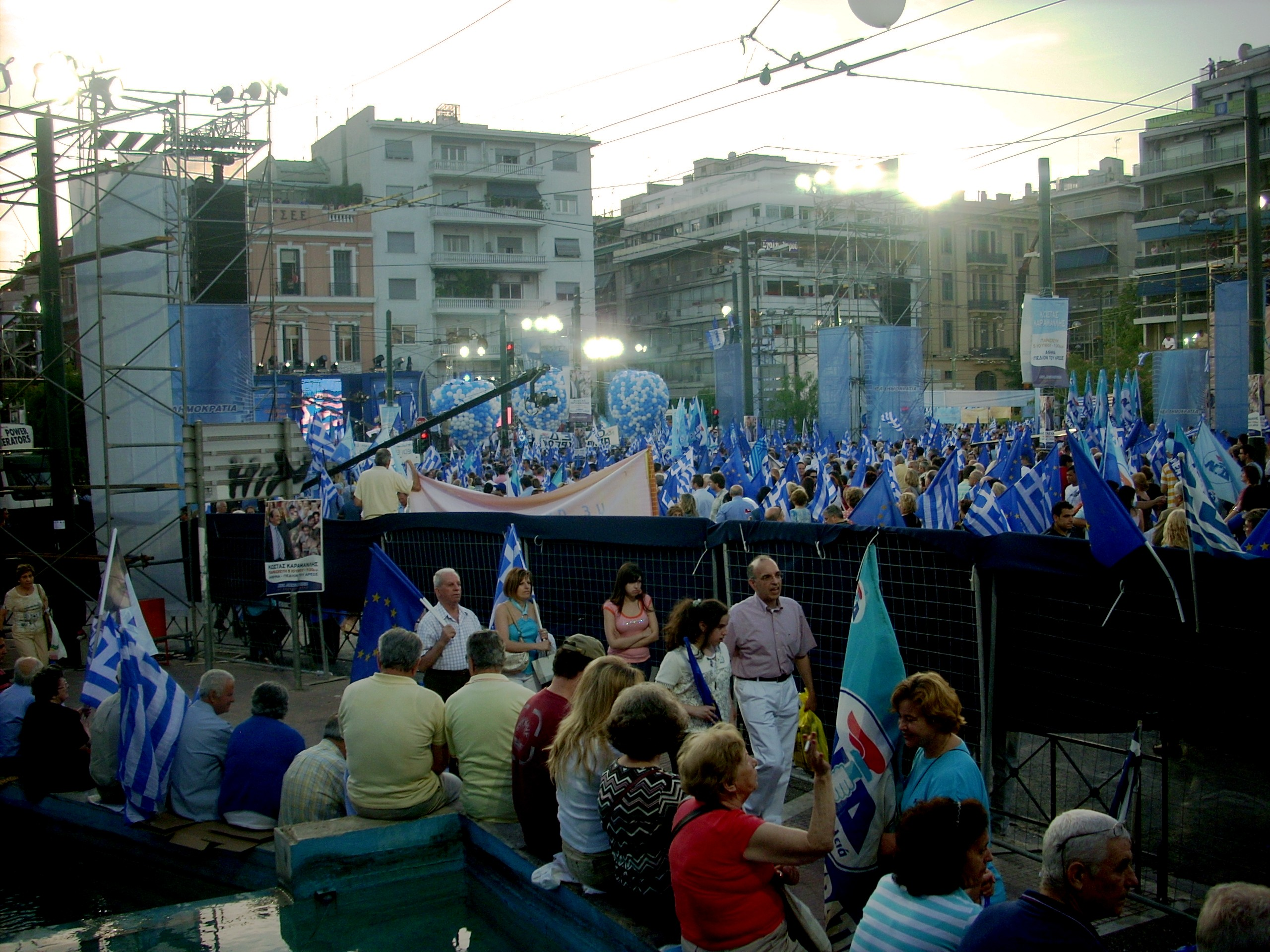 Political campaign of partie New Democracy before the European Parliament election in Greece in 2009 - partie veche, Aigyptou Square